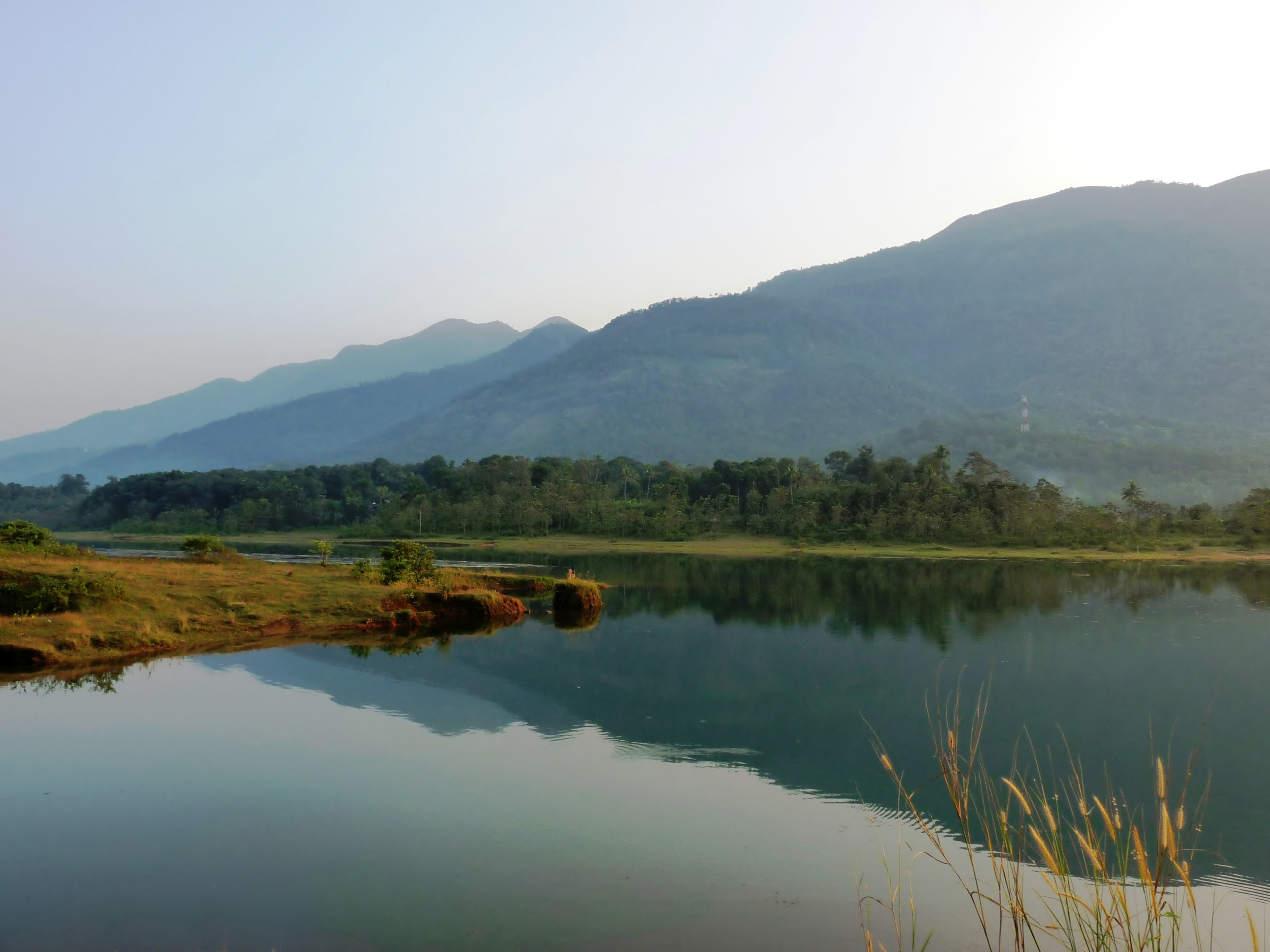 View of Malankara Dam reservoir from Kudayathoor, Thodupuzha.